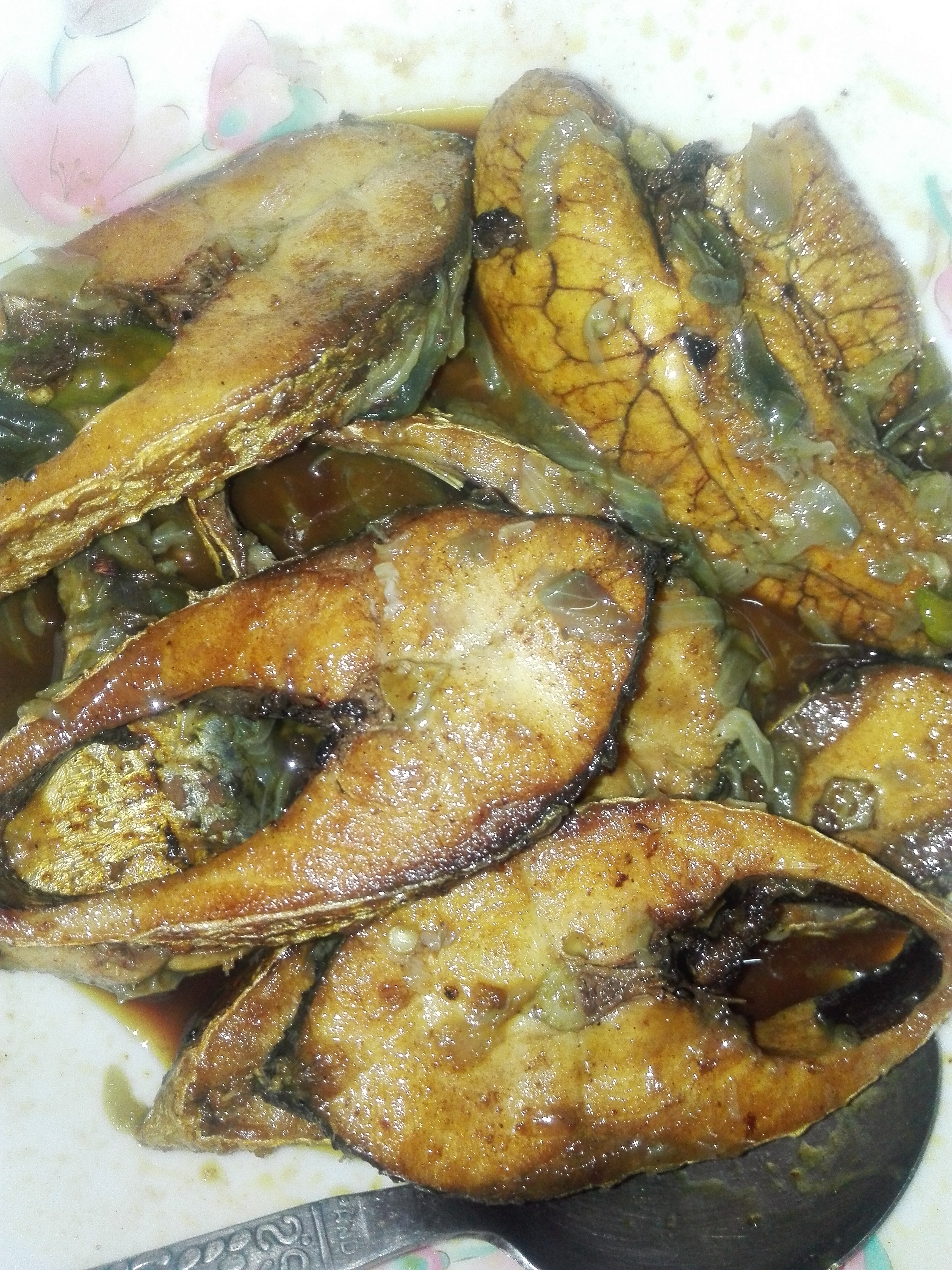 Delicious hilsha fish curry